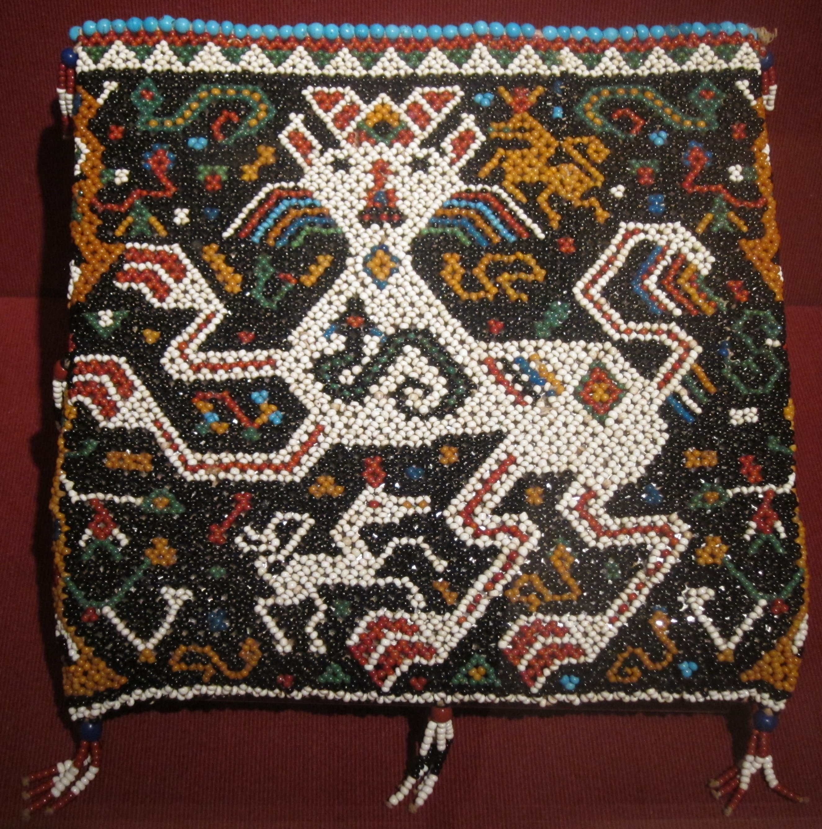 Royal ceremonial betel bag (pahapa), East Sumba, Kingdom of Kapunduk, early 20th century, beads and twine, Honolulu Museum of Art, accession 10168.1